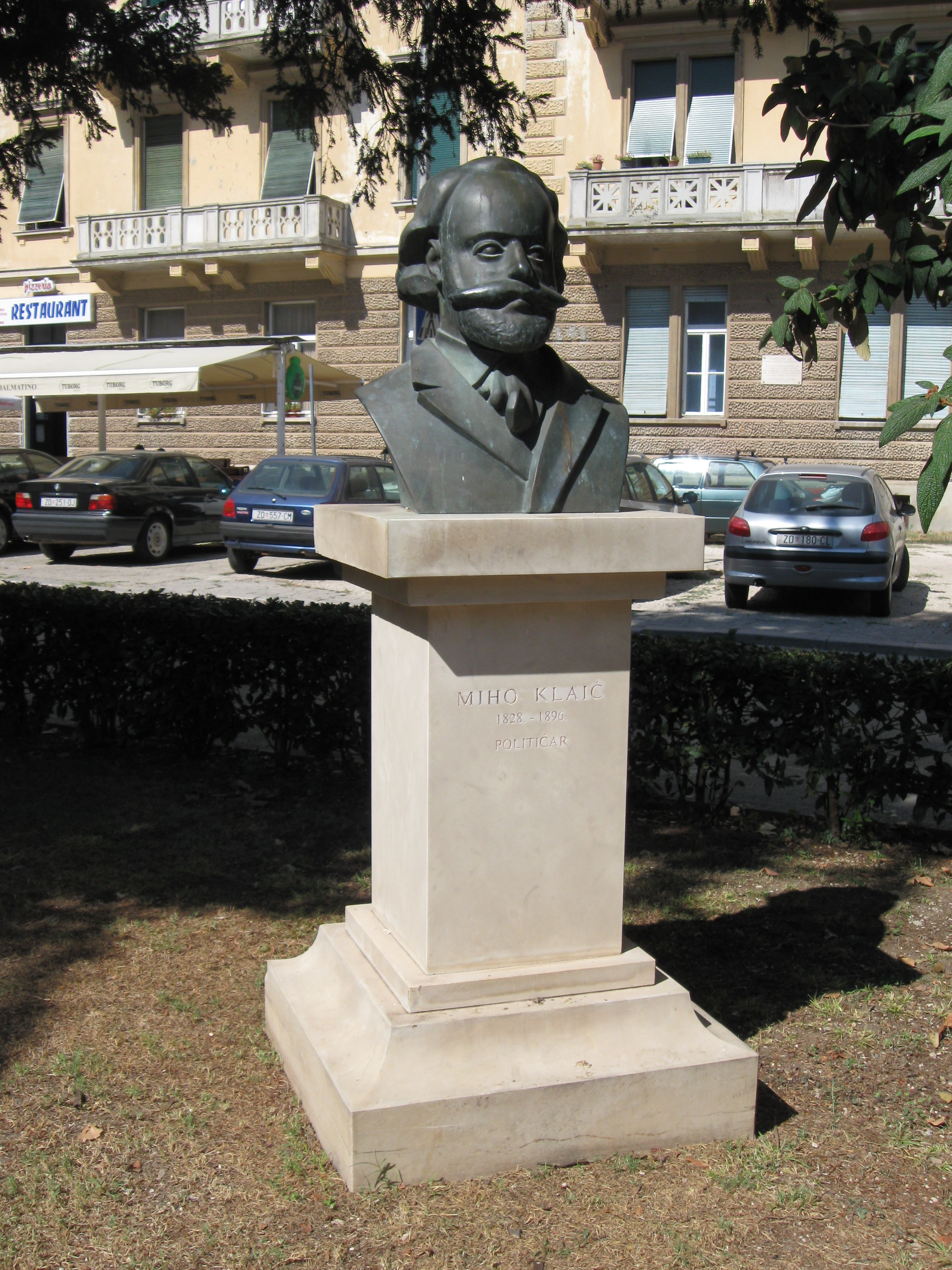 A monument to Ivo Prodan (1829–1896), a Croatian politician and a leader of the Croatian revival in Dalmatia. Gospa od Zdravlja park, Zadar, Croatia